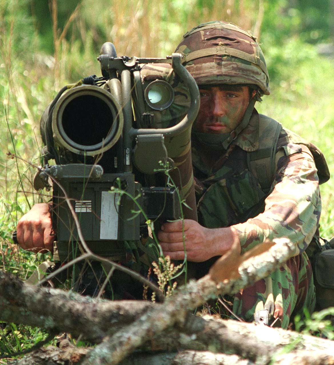 A British Royal Marine from 45 Commando watches for enemy tanks and armored personnel carriers from behind his anti-armor weapon at Camp Lejeune, N.C., on May 11, 1996, as part of Combined Joint Task Force Exercise '96. More than 53,000 military service members from the United States and the United Kingdom are participating in Combined Joint Task Force Exercise '96 on military installations in the Southeastern United States and in waters along the Eastern seaboard.